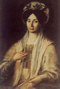 Portrait of Greek writer Elisabeth Muntzan